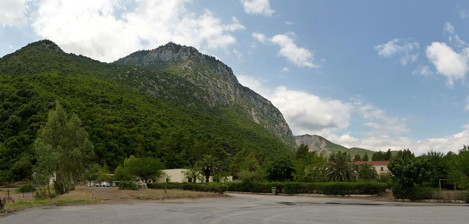 Thermopylae is a location in Greece where a narrow coastal passage existed in antiquity. It derives its name from its hot sulphur springs. You can use the images for free. But a link to - I would be happy :)